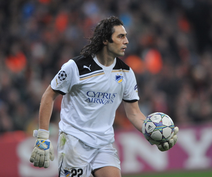 Dionisis Chiotis is a Greek goalkeeper